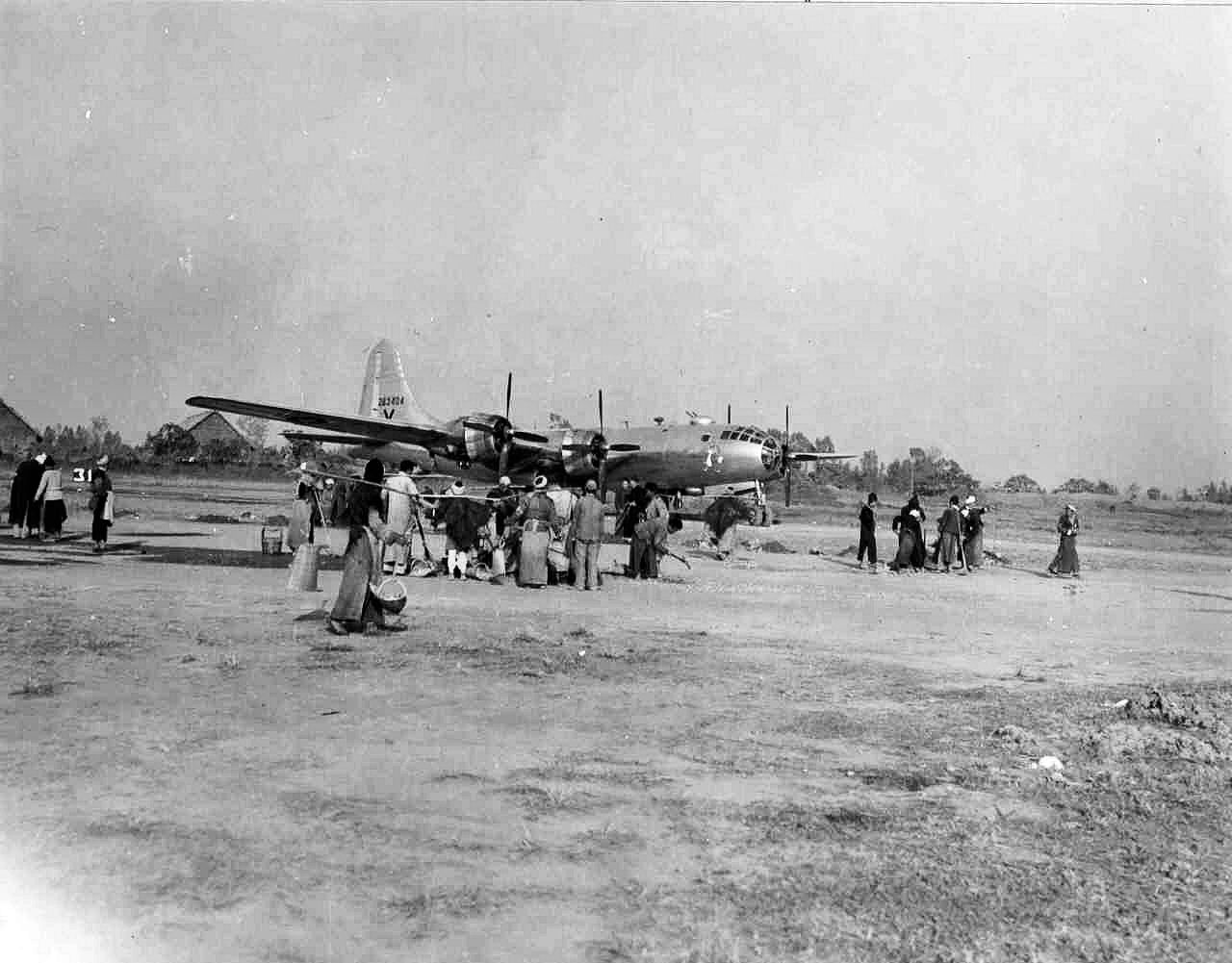 45th Bombardment Squadron Boeing B-29-1-BW Superfortress 42-6254 at Hsinching Airfield (A-1), China, December 1944.